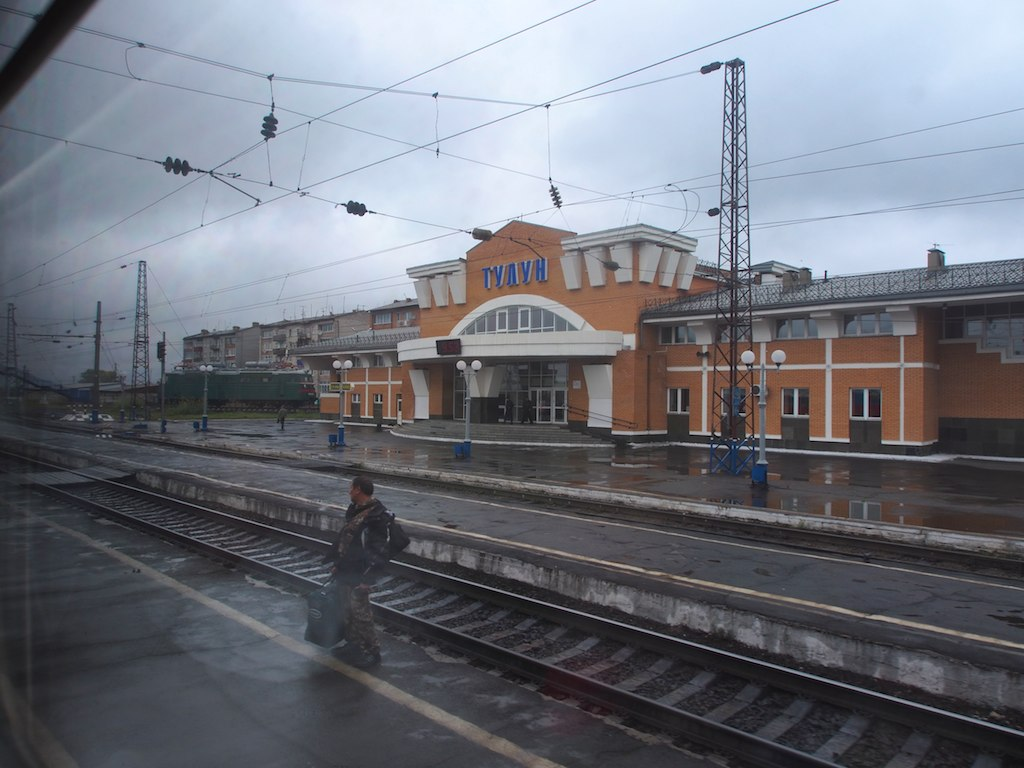 Day four from Moscow, the station stop at Tulun.